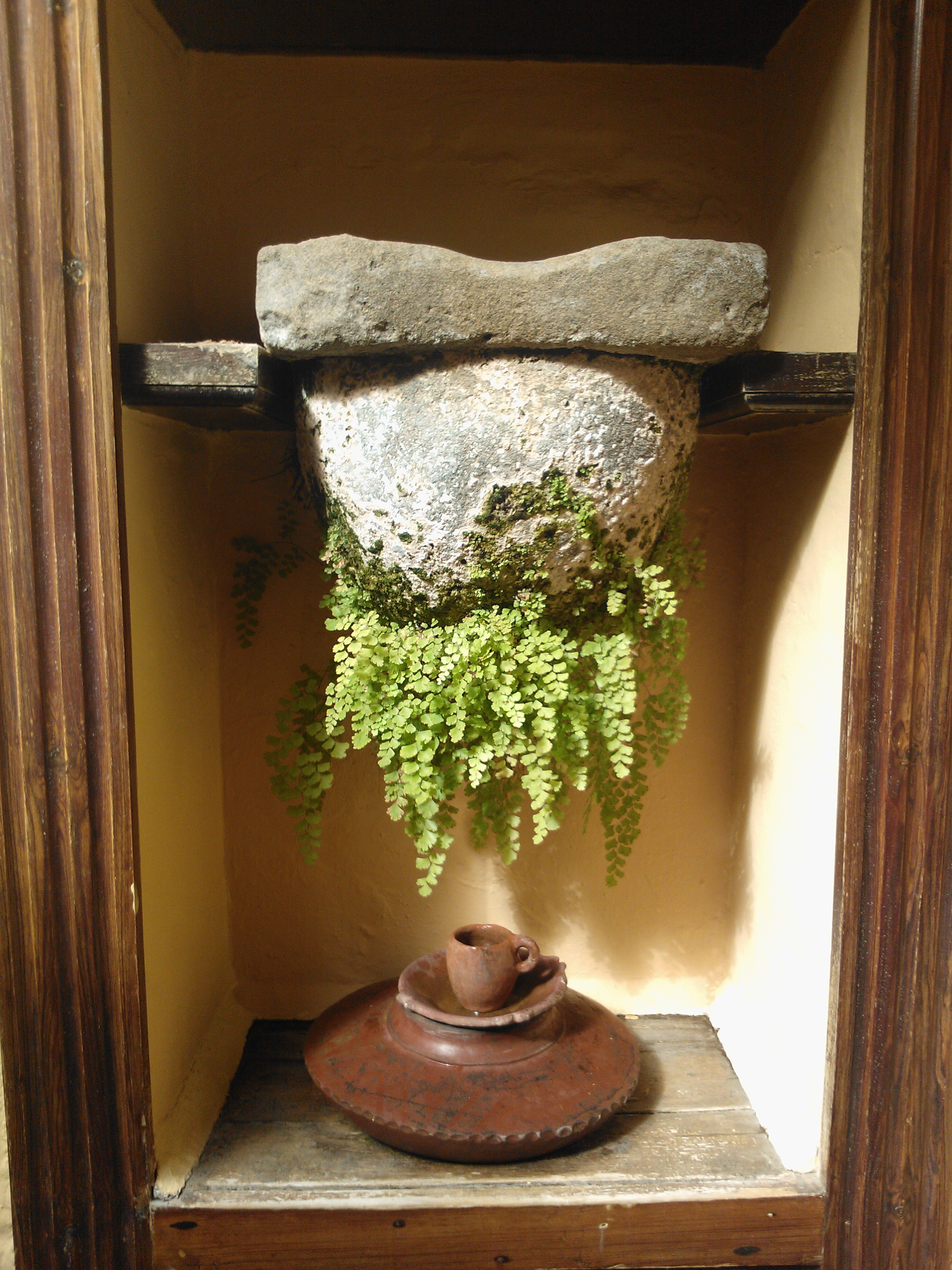 Following cultural resources of Punic origin and techniques preserved in the XXI century in the North African Maghreb, Canaries rural societies have used until the third quarter of the 20th century the same primitive techniques for distillation of rainwater. The water of the upper battery or distill porous stone is filtered and falls in the size that once filled lid with a dish, on which is placed a glass, Cup or beaker to serve and drink distilled water.